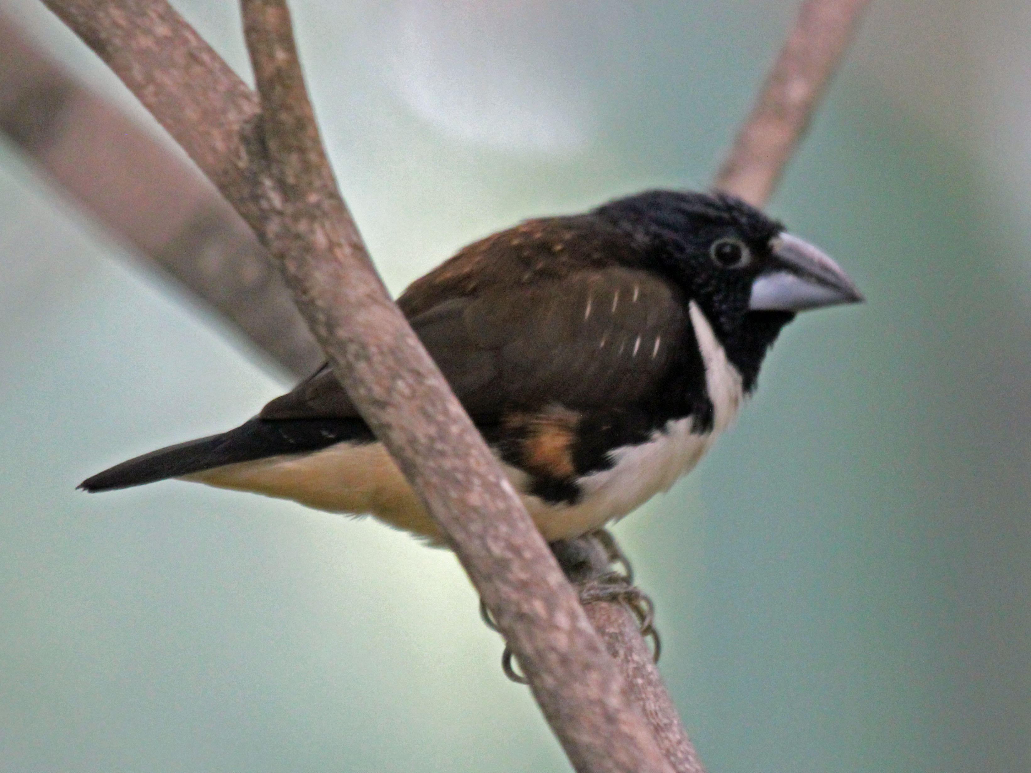 Magpie Mannikin (Lonchura fringilloides) - San Diego Zoo